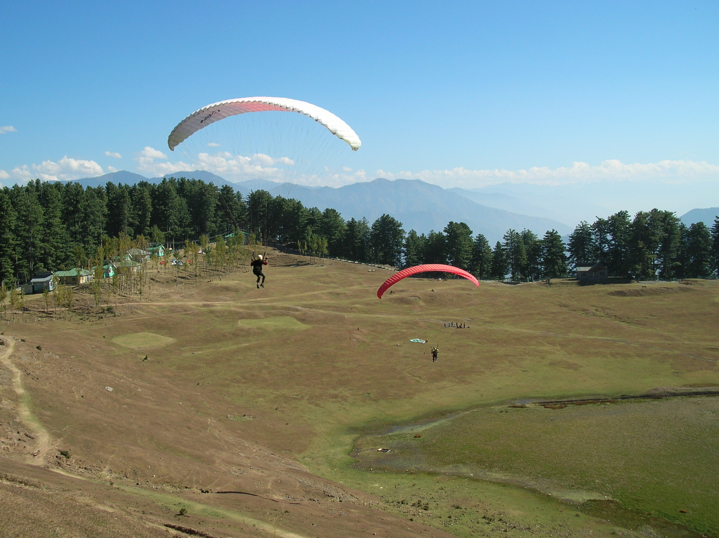 Author-Dr Thakur Naveen Kotwal Paragliding at Sanasar 2007.